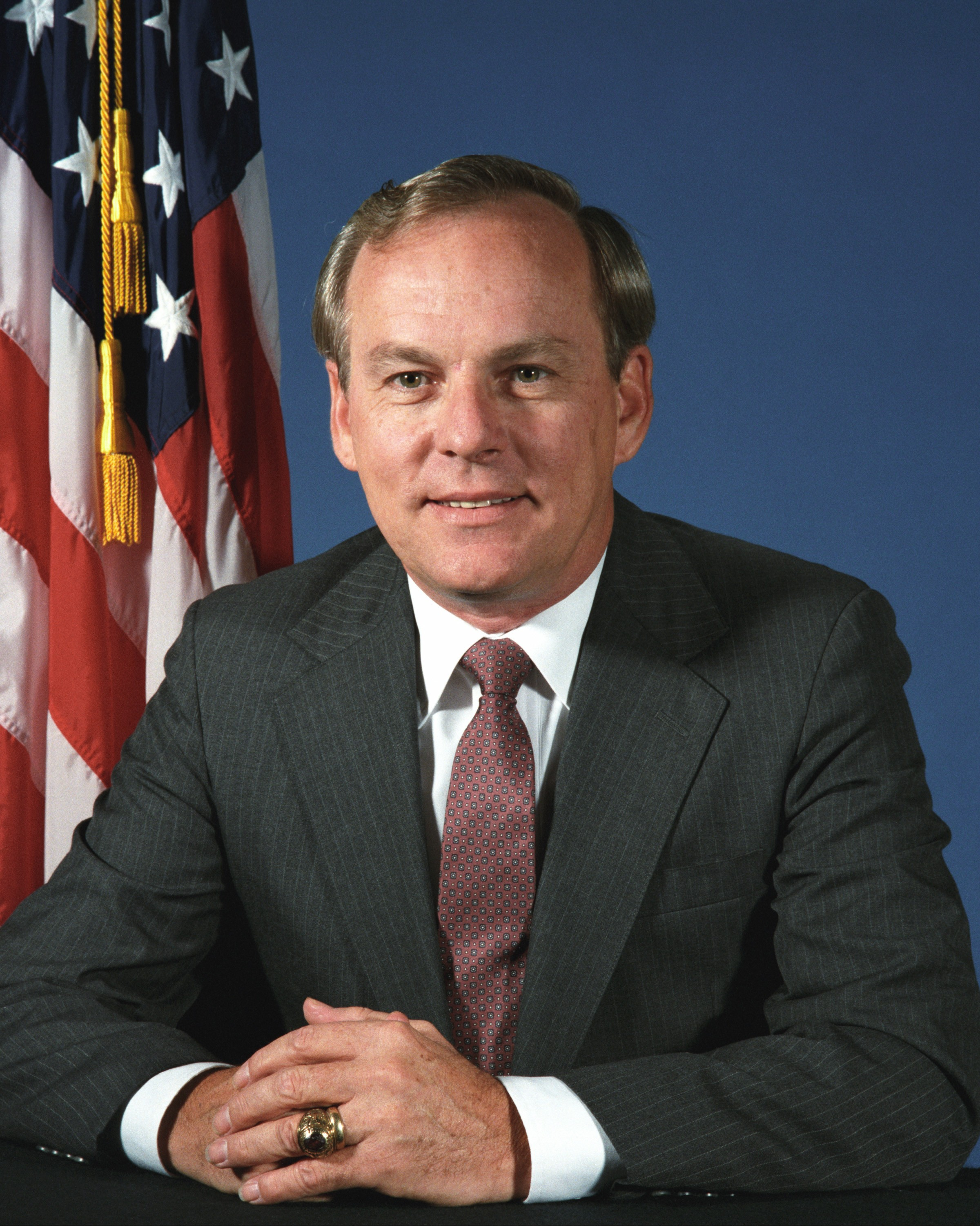 Henry Lawrence Garrett III as Undersecretary of the Navy.